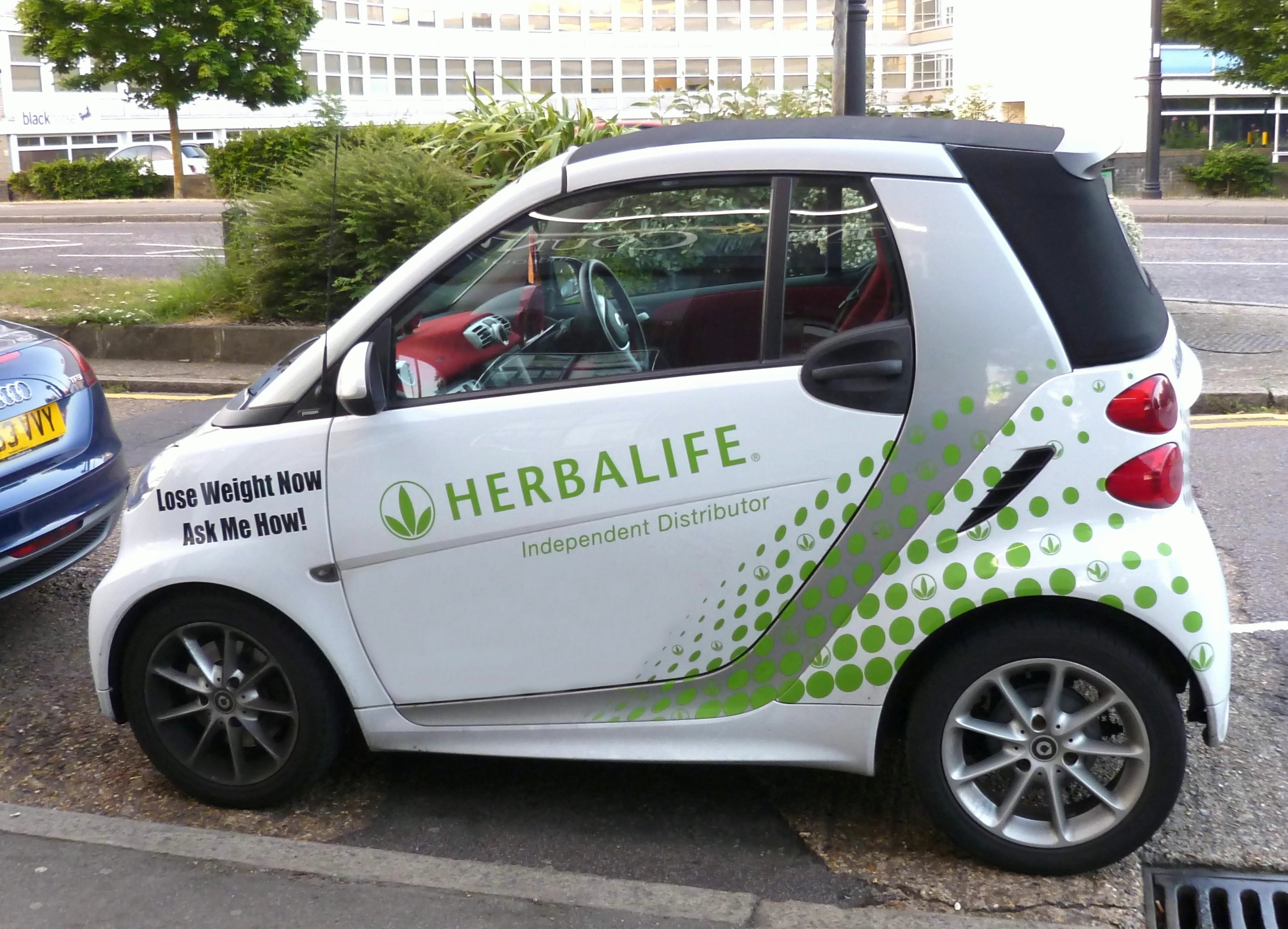 Herbalife branded car